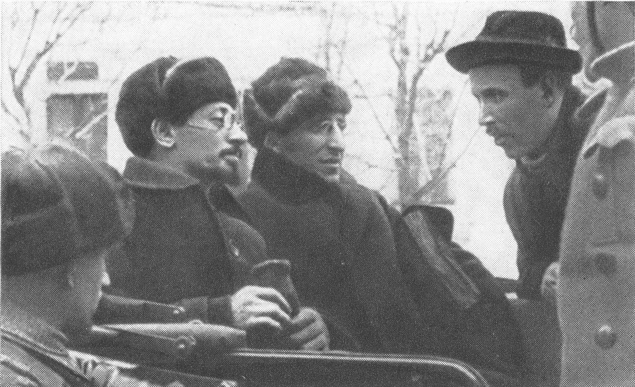 Politician of the USSR. Yakov_Sverdlov (1885-1919)